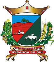 Coat of arms of the city of Ipiranga do Sul, Rio Grande do Sul, Brazil.